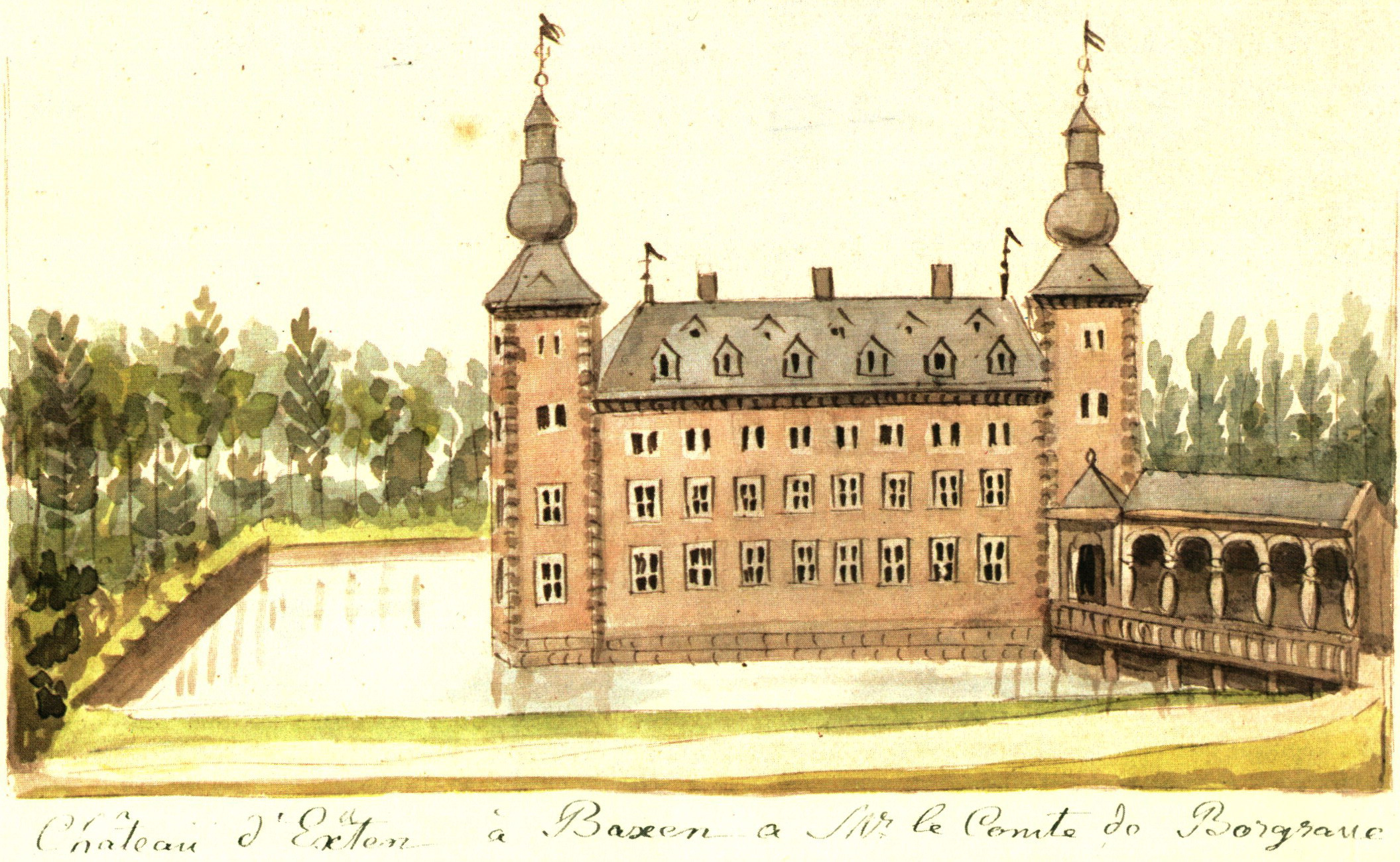 View of Exaten Castle in Baexem, Limburg, the Netherlands. Drawing by Philippus van Gulpen (c 1840-60)